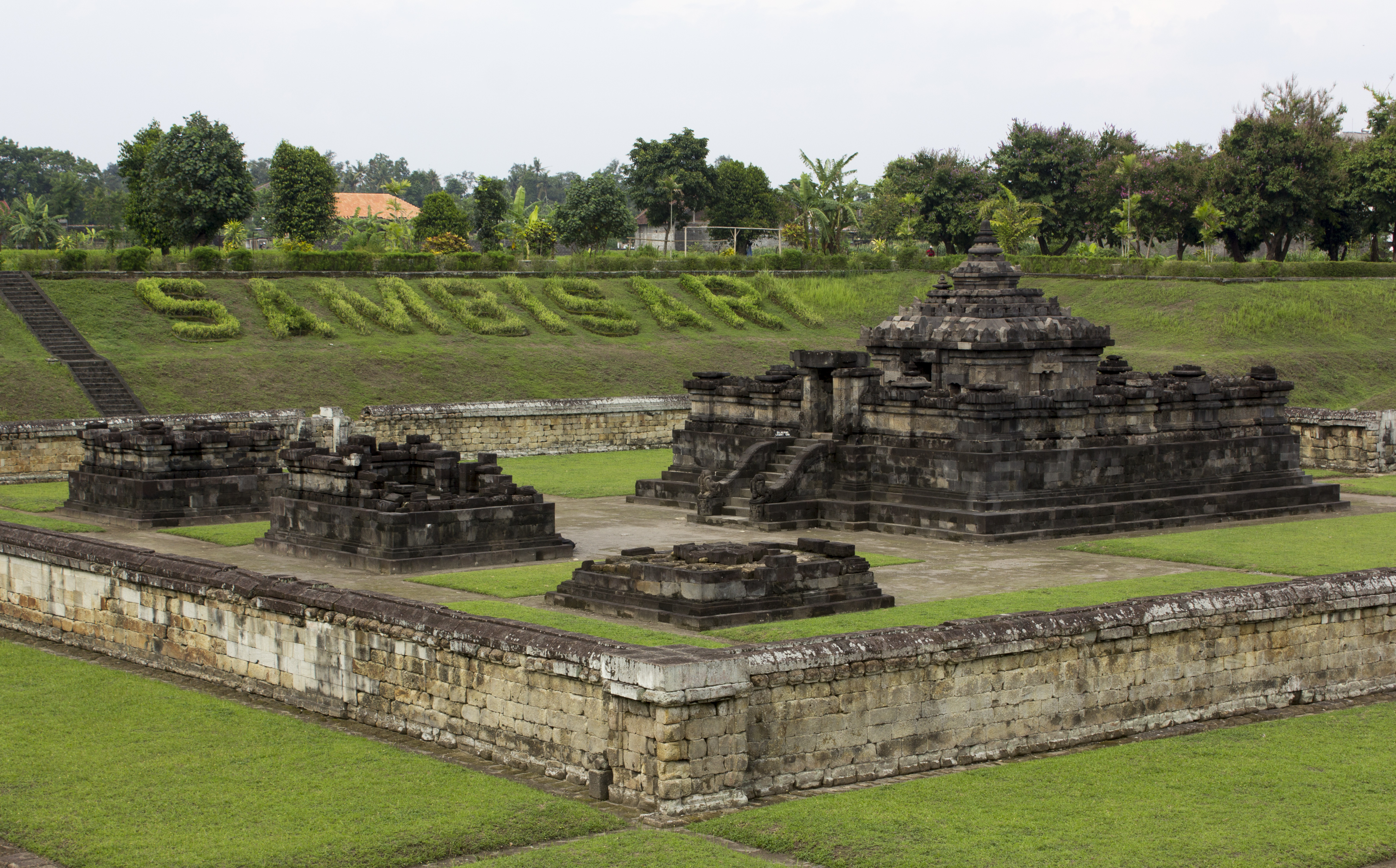 Complex/temple of Sambisari Temple, in Kalasan, Yogyakarta